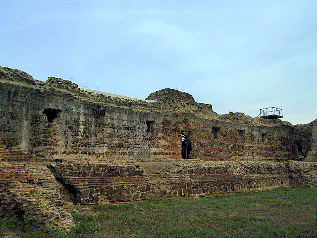 Roman Ruins of Villa Áulica and Convent of São Cucufate - old terrace and gallery - Vidigueira / Portugal